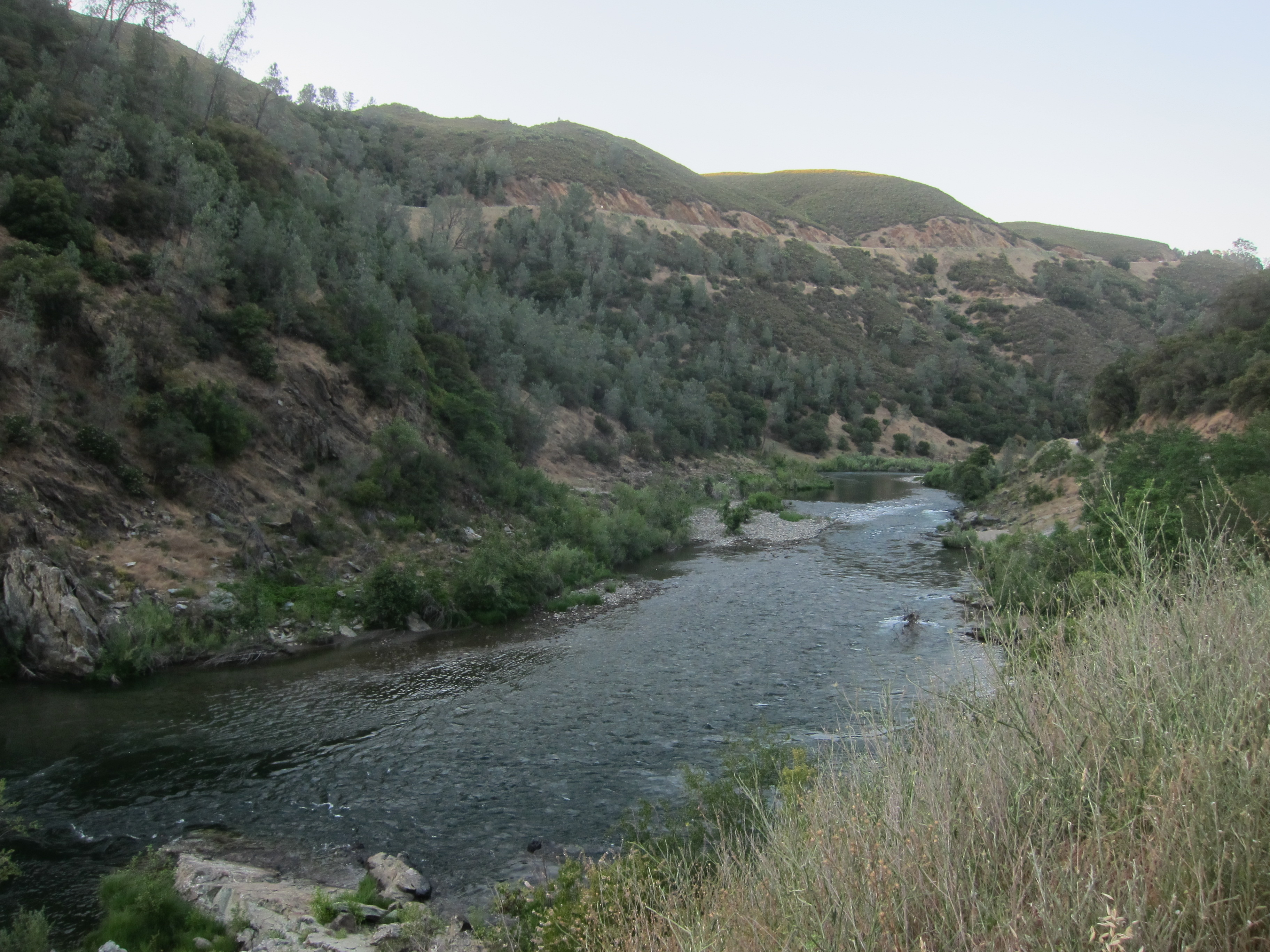 The Middle Fork American River near its confluence with the North Fork American River, Auburn SRA.